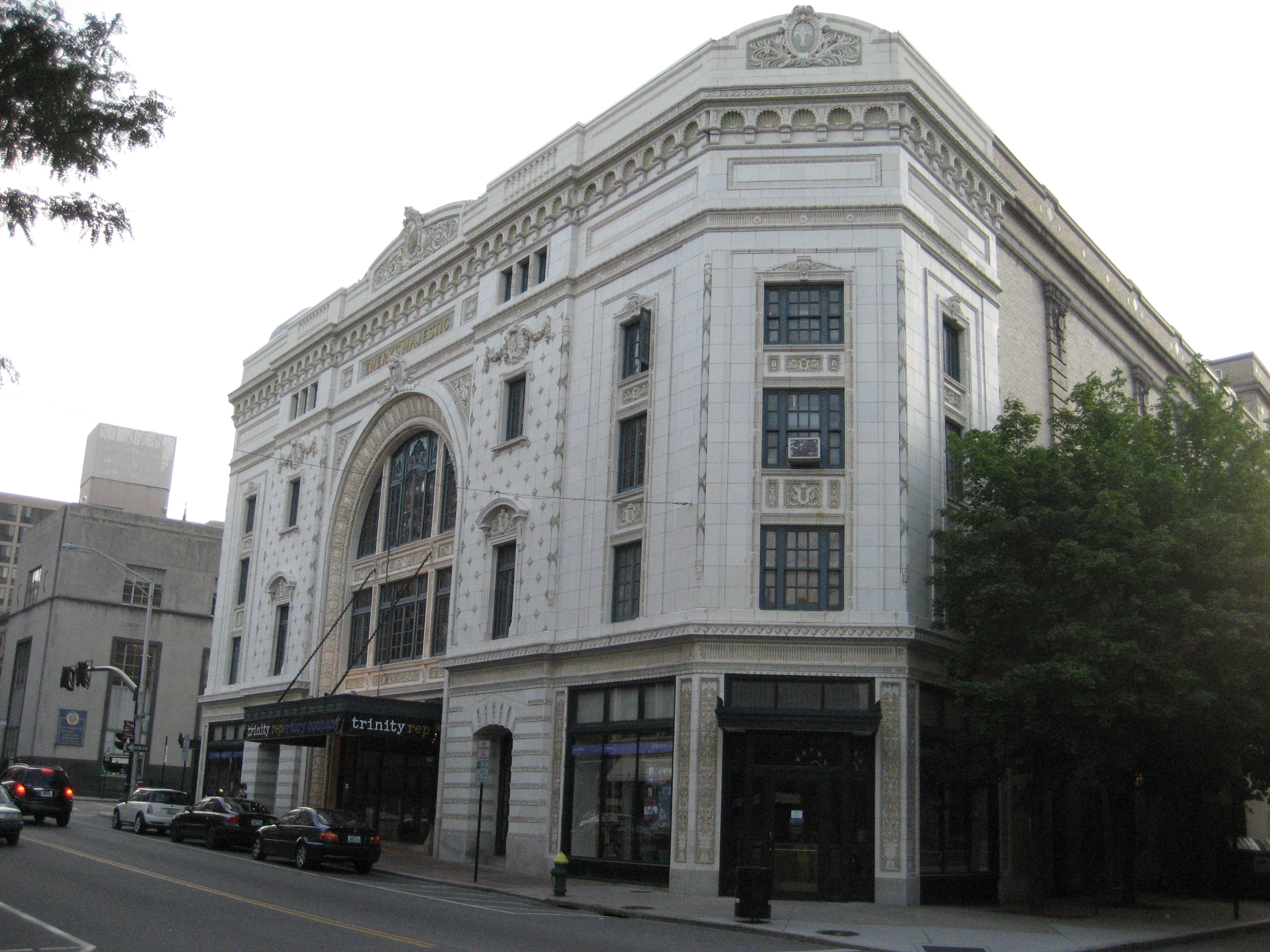 Providence, Rhode Island. Trinity Theater.